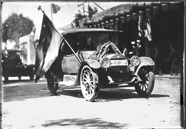 1921 Fiesta parade, Santa Fe, New Mexico Palace of the Governors archive